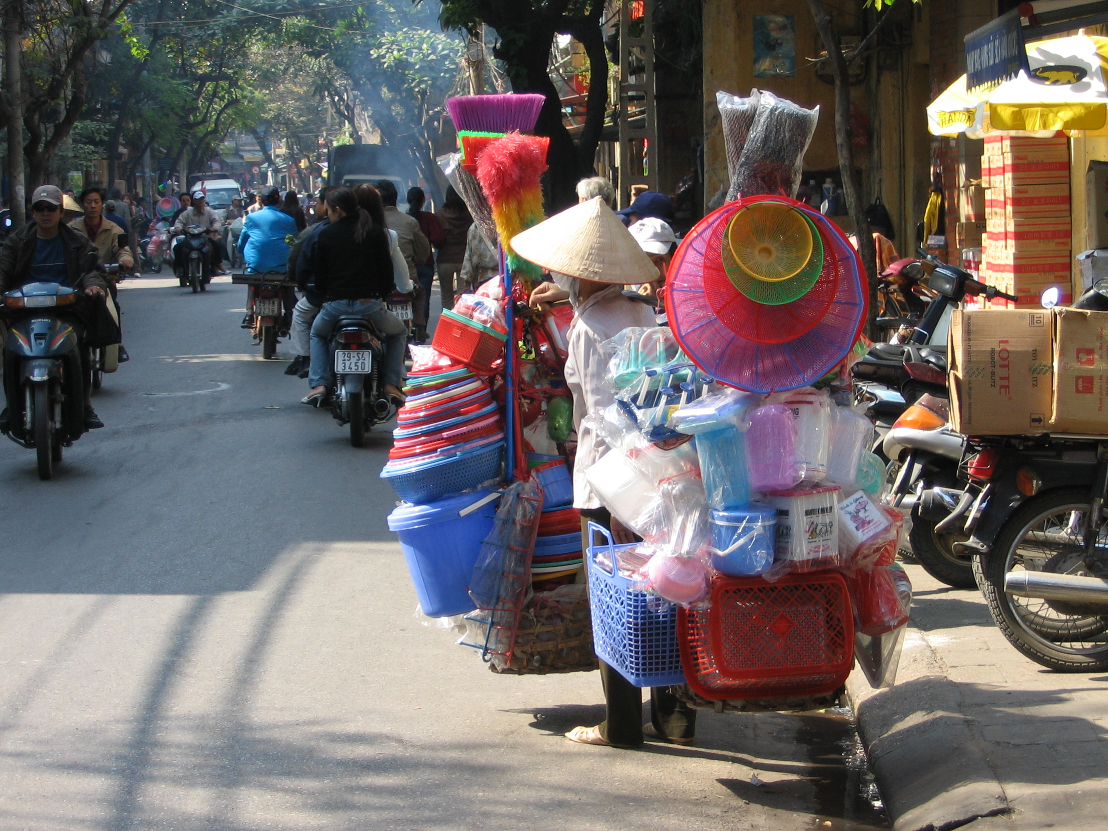 Market in streets of Hanoi (Vietnam) by AlfredBoc Own Work December 2005